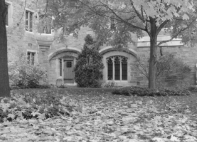 coffin house